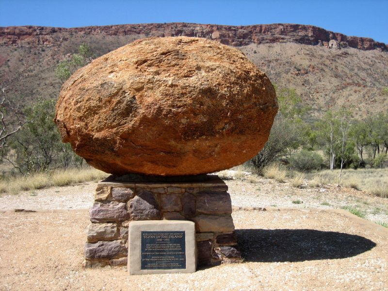 John Flynn's grave outside of Alice Springs